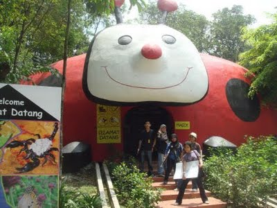 insect zoo. one and only